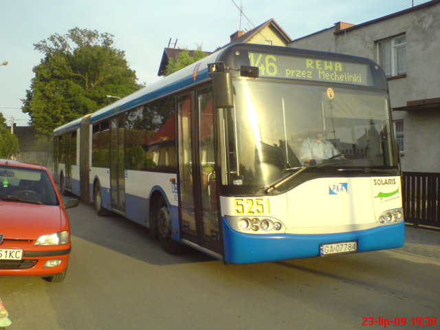 Solaris Urbino 18 Mk1 city bus (#5251) in Gdynia, Poland. Built 2000, PKA Gdynia operator.